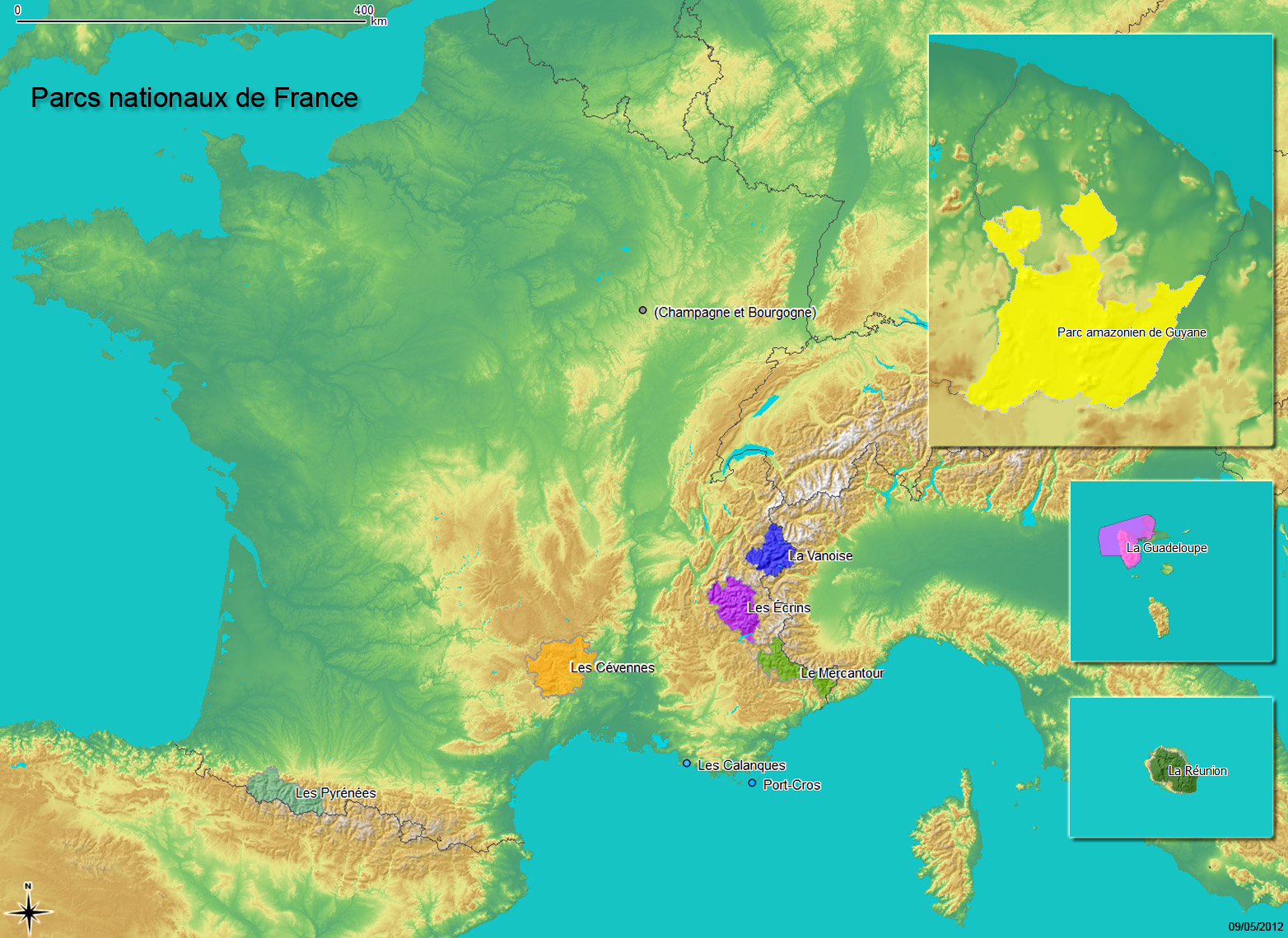 Map of the French national parks